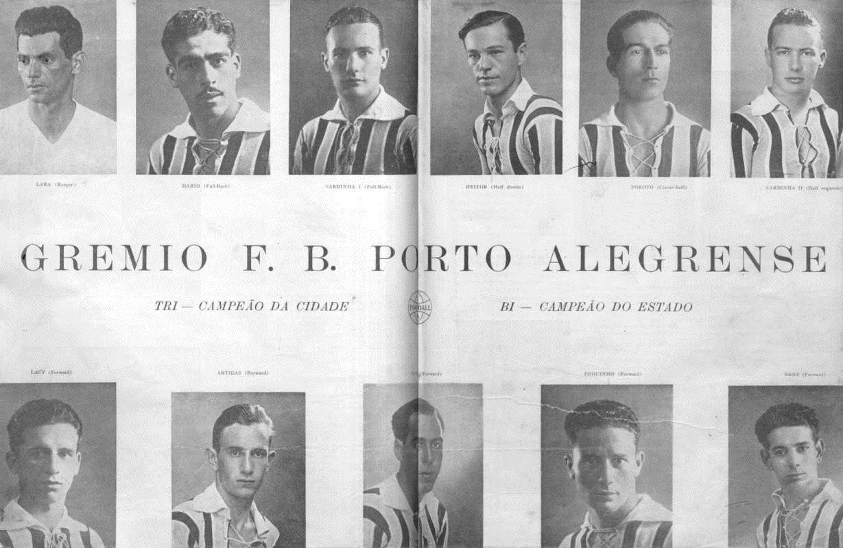 Grêmio Tricampeão Citadino de 1932. Revista do Globo, 1932.